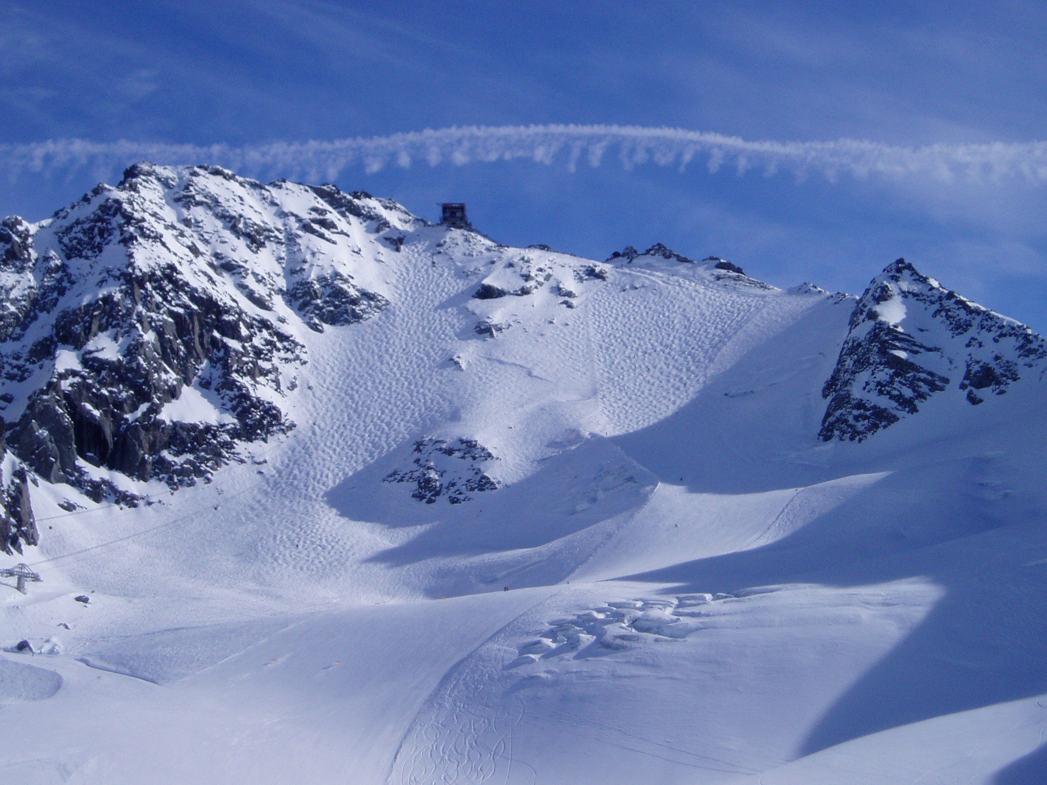 Ski slope down the Mont Fort, canton Valais